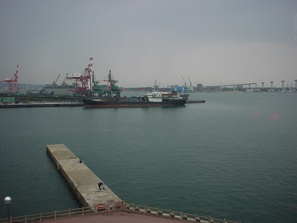 Toyama New Port in Toyama, Japan.